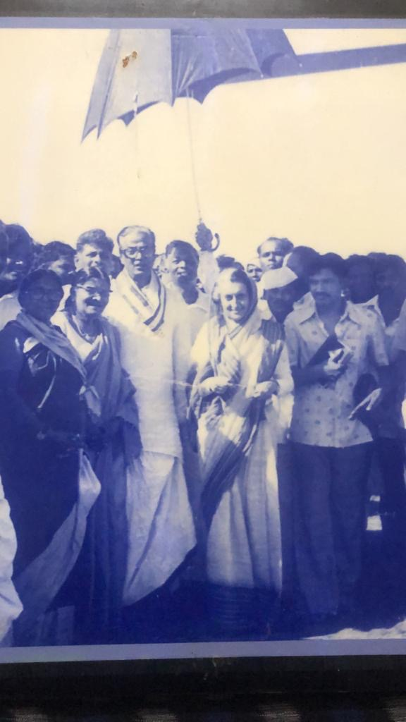 Kandula Obul Reddy with Prime Minister Indira Gandhi